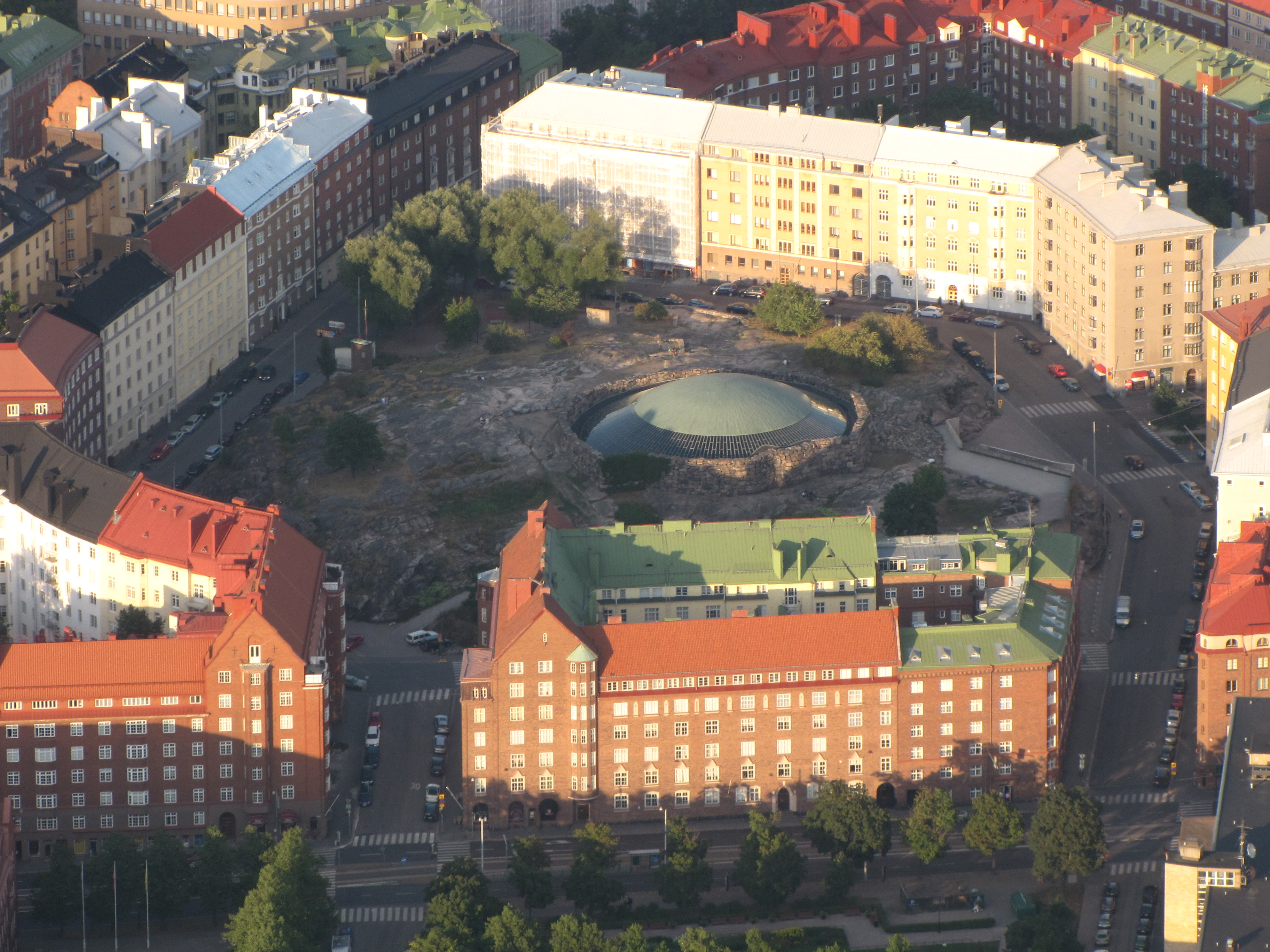 Temppeliaukio Church photographed from a hot air balloon.